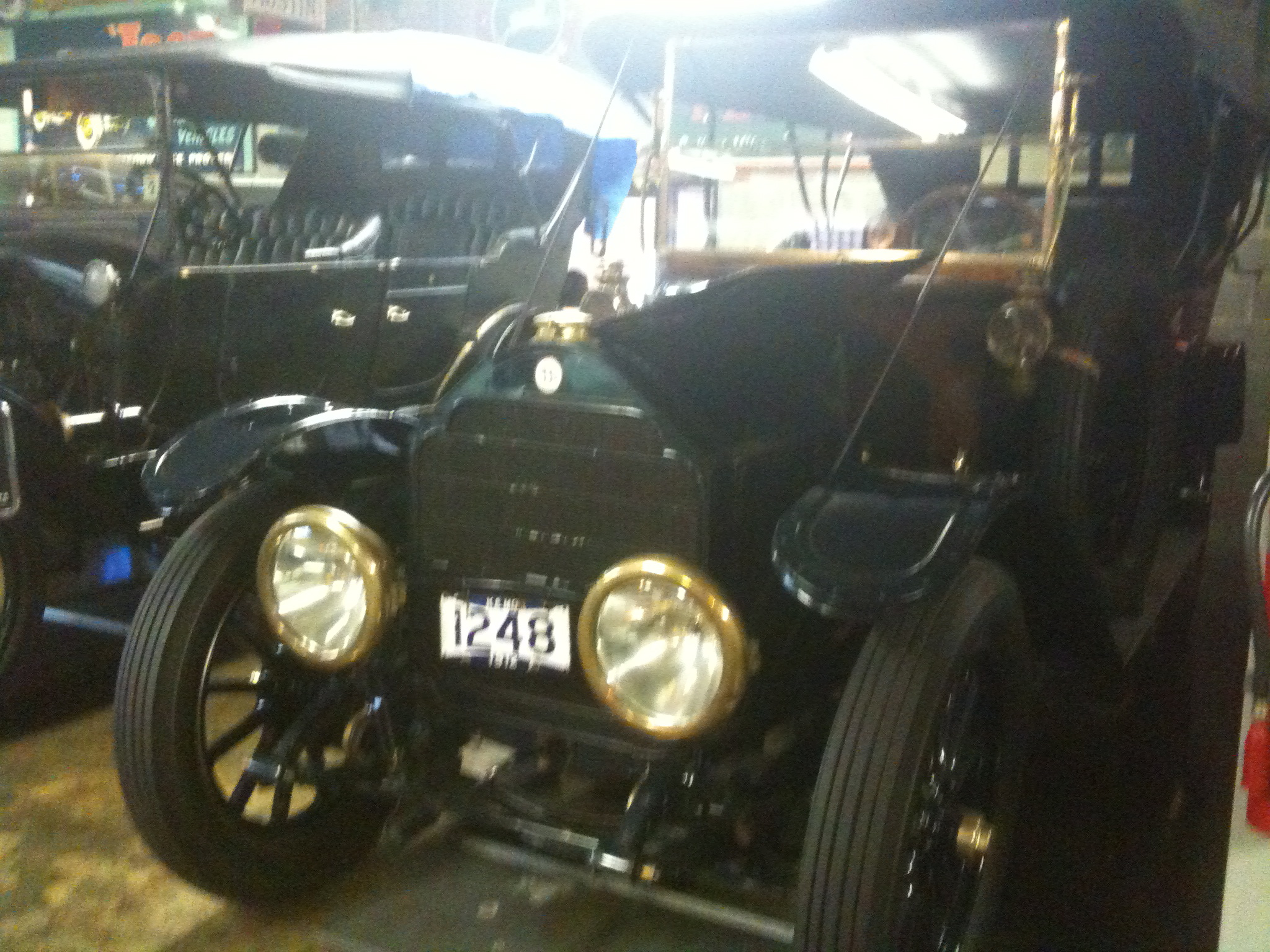 I (Russ Davis) took this in 2011 in Kansas City, Missouri. I (Russ Davis) took this in 2011 in Kansas City, Missouri.